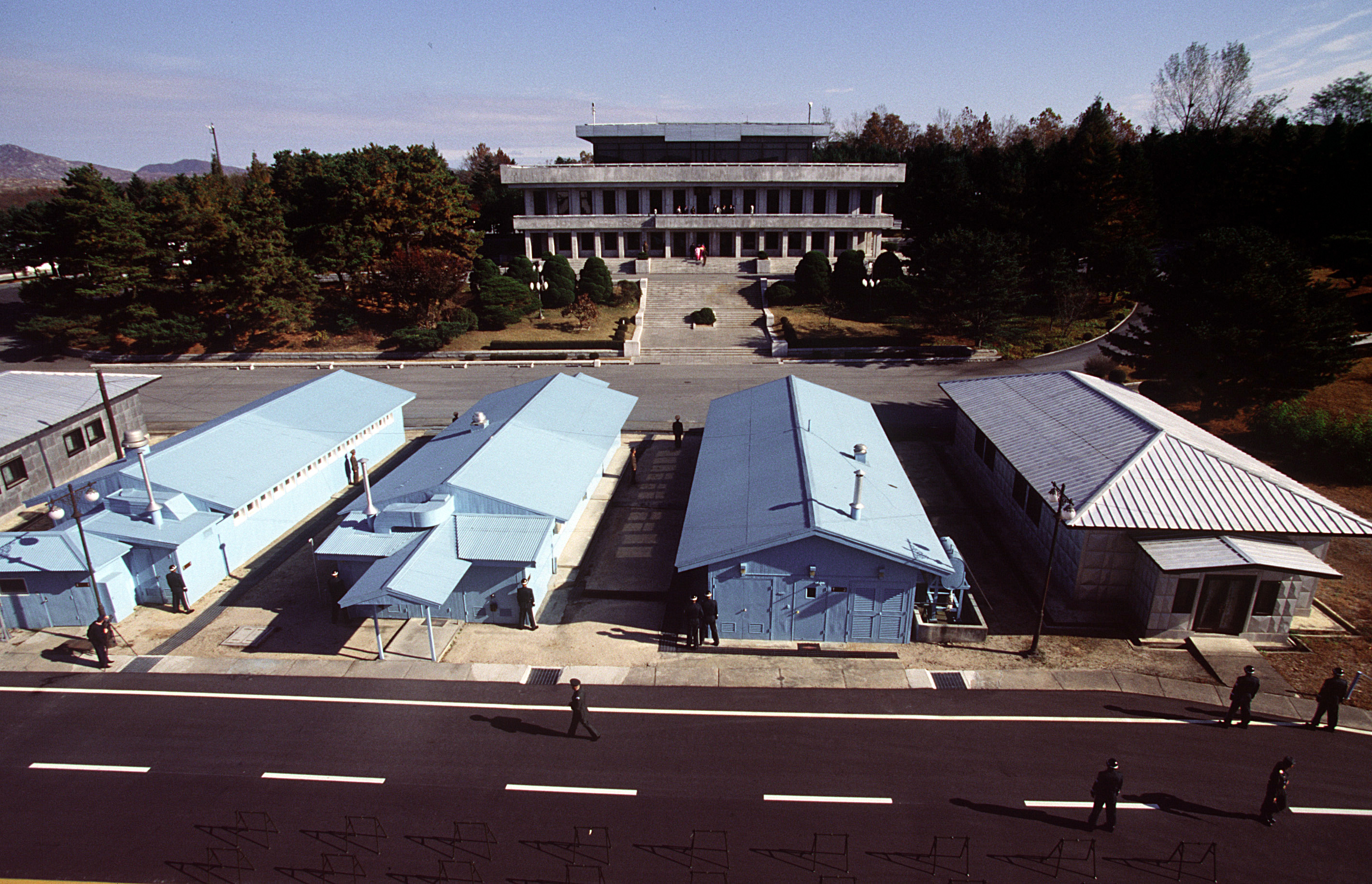 A view of the Panmunjom Joint Security Area looking towards the North Korean side as preparations are being made for a repatriation ceremony on Nov. 6, 1998. Repatriation of Korean War remains are a result of a joint U.S./Democratic Peoples Republic of Korea joint recovery operation within North Korea to locate and return the U.S. service members to their homeland through Panmunjom. Twenty-nine service members have been returned since the joint recovery operation began in 1996. (U.S. Air Force photo by TSgt James Mossman) (Released)